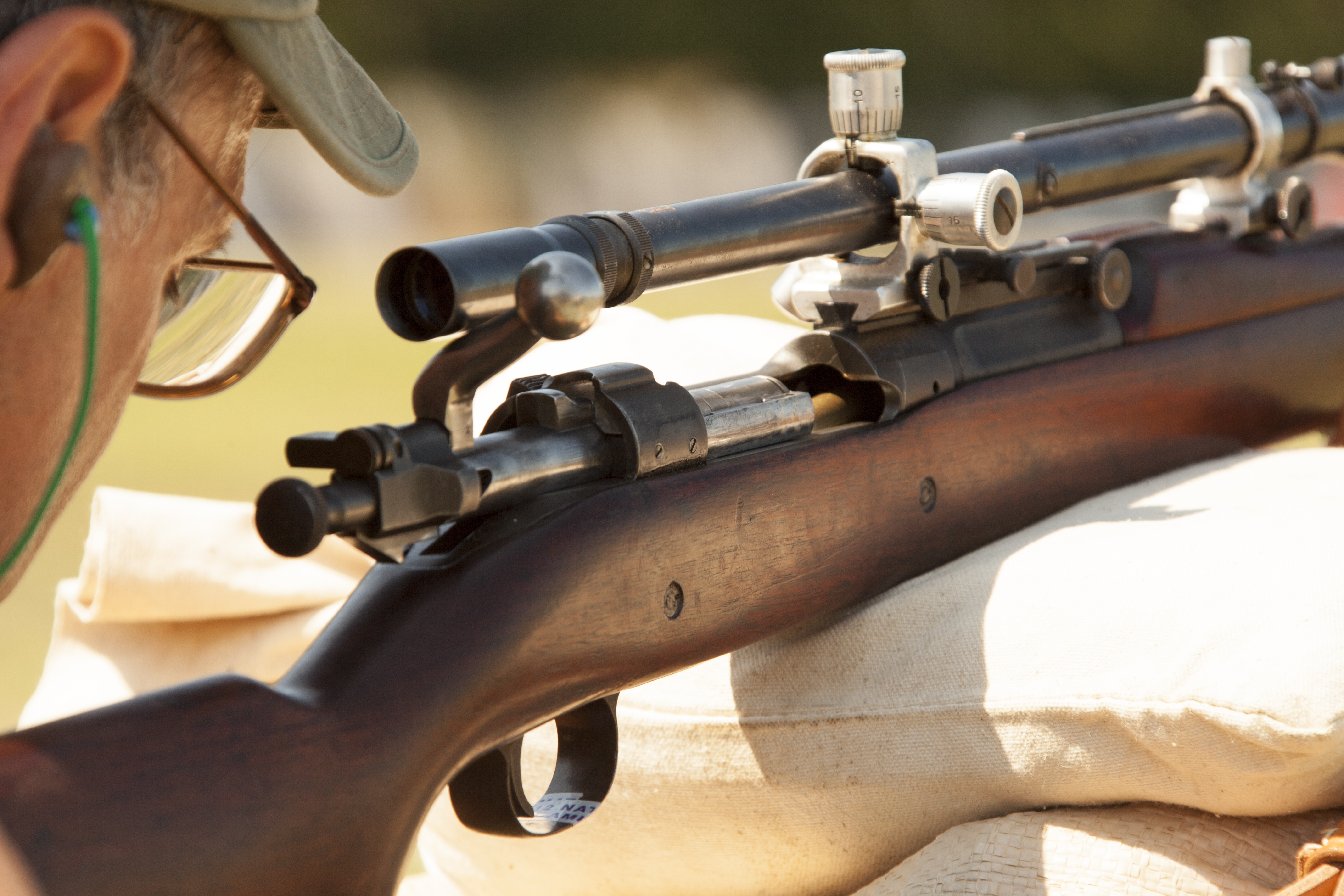 Fred Gowen, a veteran from the battle of Hue City, 1968, during the Vietnam War, waits with a round in the chamber for his target to reappear, during the Vintage Sniper Rifle Matches, Aug., 1, 2012 aboard Camp Perry, Ohio. When the targets appeared competitors had 20 seconds to adjust their sites and send a round down range before the targets would disappear into the pits and reappear in 20 seconds for another shot. Competitors shot 10 rounds at the 300 and 10 rounds at the 600 in this manner.